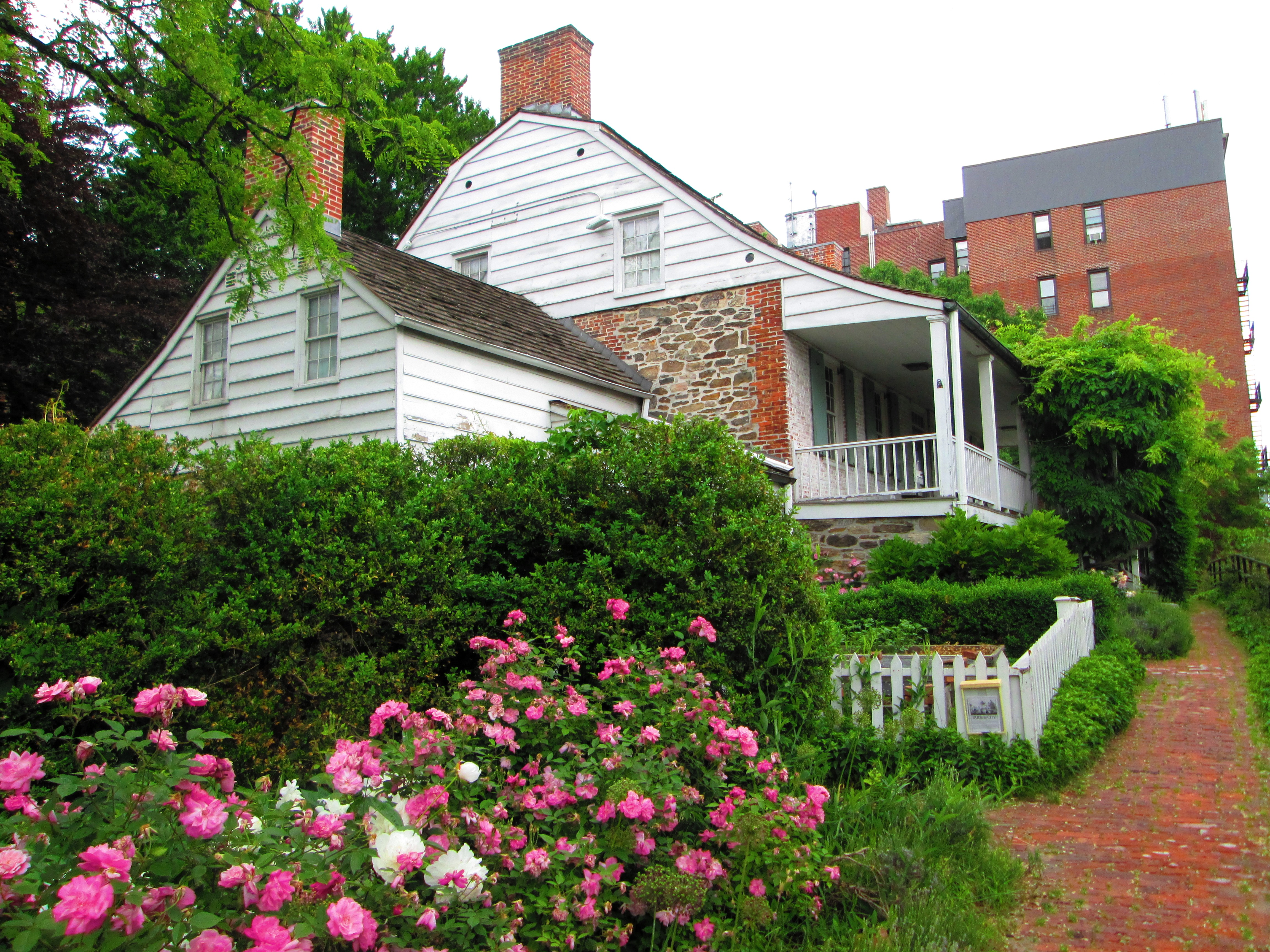 The Dyckman House, now known as the Dyckman Farmhouse Museum, is the oldest remaining farmhouse on Manhattan island, a reminder of New York City's rural past. The Dutch Colonial-style farmhouse was built by William Dyckman, circa 1785, and was originally part of over 250 acres (100 ha) of farmland owned by the family. It is now located in a small park at the corner of Broadway and 204th Street in the Inwood neighborhood of the city. It was restored in 1915-16 under the supervision of architect Alexander M. Welch, and given to New York City for use as a museum.